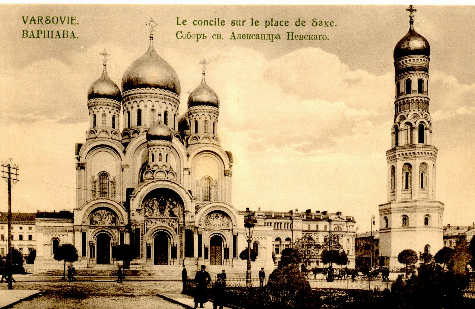 Warsaw (Poland), Alexander Nevsky Cathedral